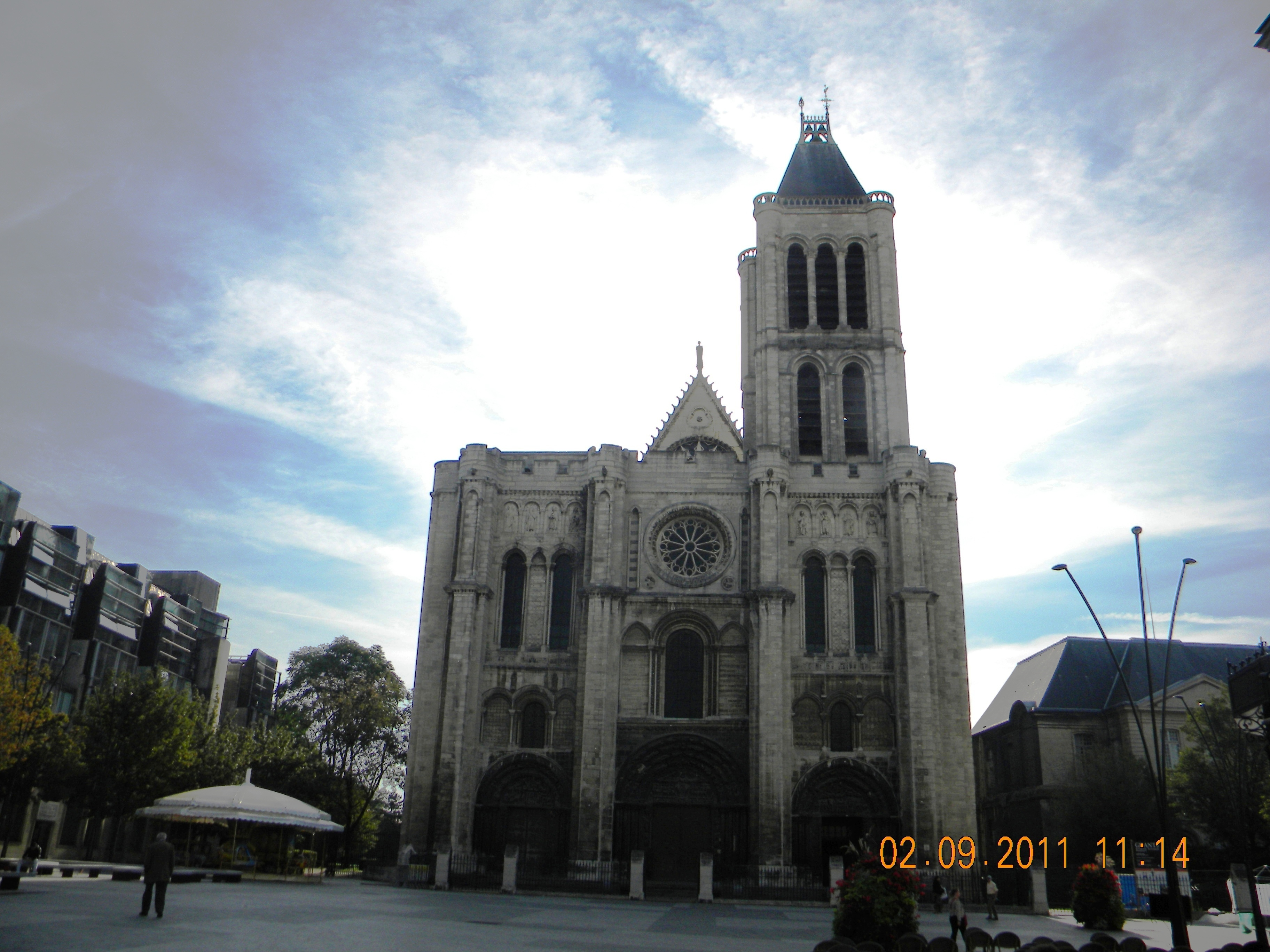 Saint Denis Eglise, Paris